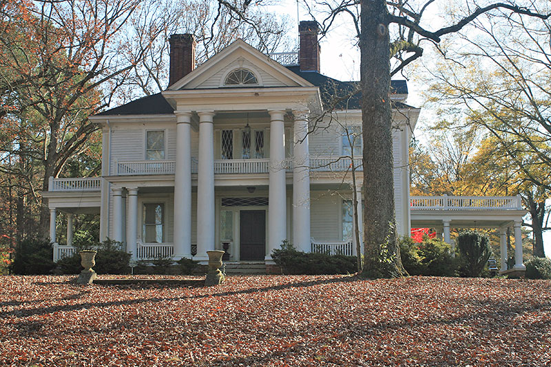 J. Beale Johnson House located in Fuquay-Varina, North Carolina. Listed on the National Register of Historic Places. Designated: June 05, 1995.